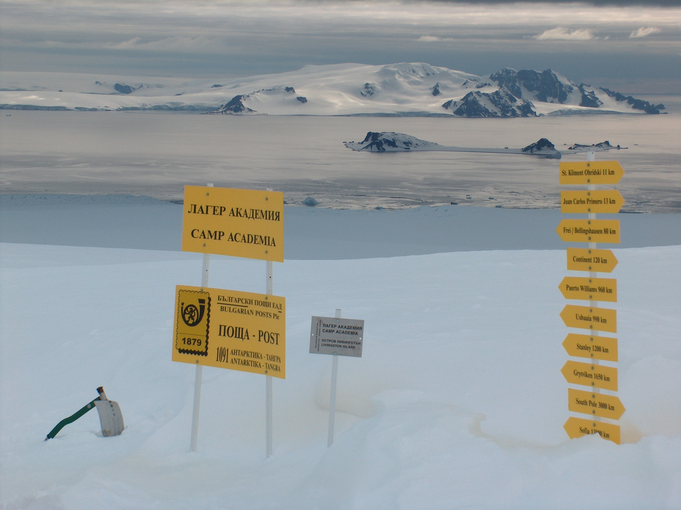 Camp Academia, Livingston Island in Antarctica.